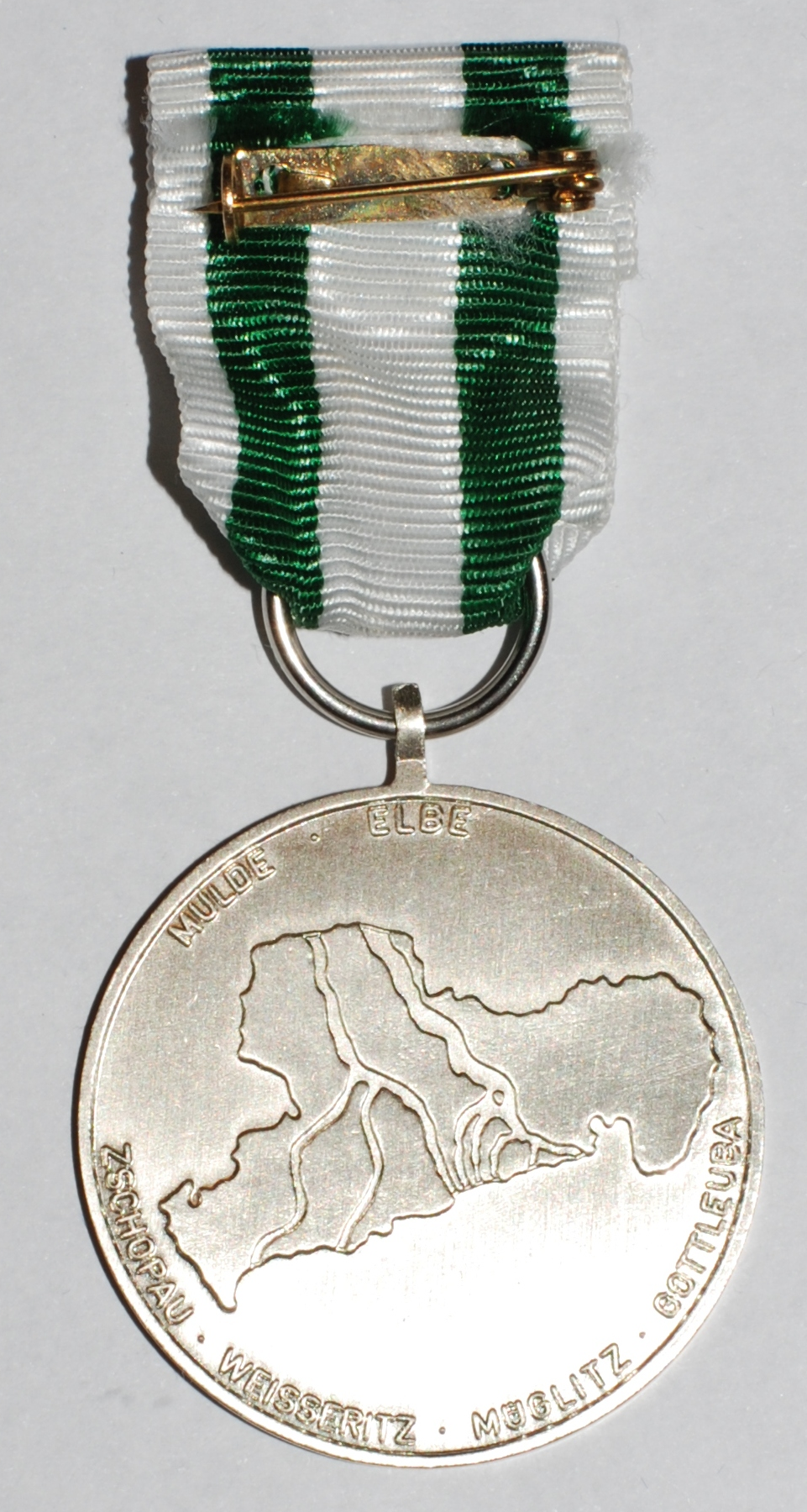 Saxoninan Flood Medal